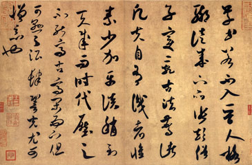 Mifu's Chinese calligraphy, Song Dynasty, Jiangsu province. Housed in the National Palace Museum.